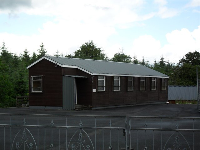 Former Church - Mountain Lodge Pentecostal The original Mountain Lodge Pentecostal Church at Aughnagurgan - outside Darkley. On 20th November 1983, I.R.A. gunmen burst into the church during a service and indiscriminately killed three worshippers and injured others in an incident better known as the Darkley Gospel Hall massacre. This building seems to now to be a church hall.